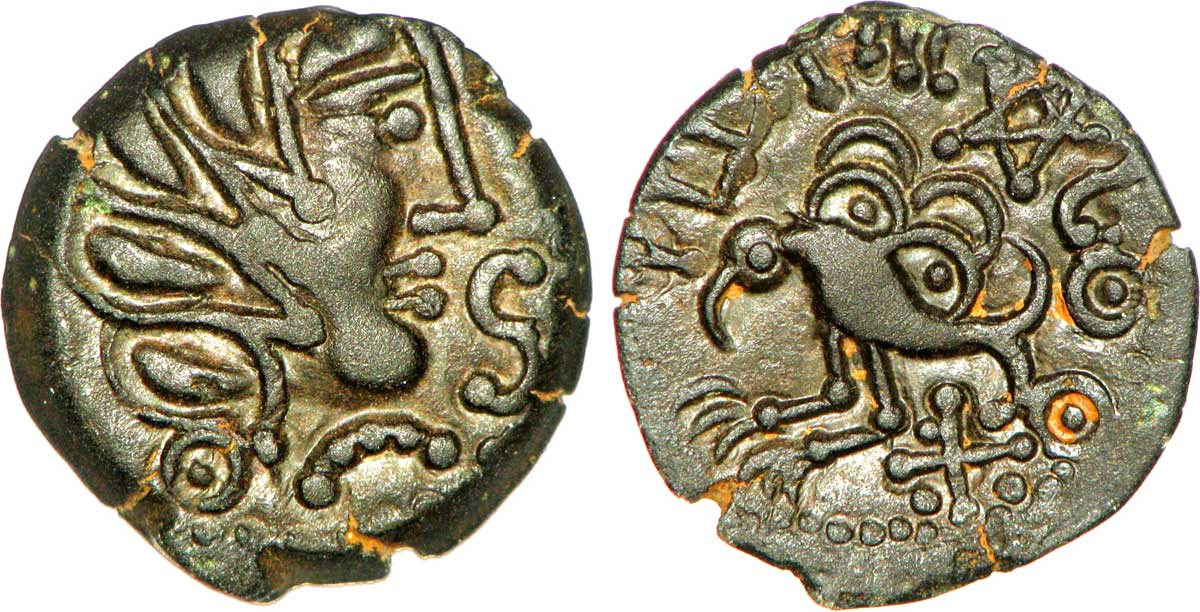 Bronze à l'oiseau frappé par les Sénons. Date : c. avant 52 AC. Description avers : Tête à droite, les cheveux divisés en grosses mèches stylisées, ramenées en arrière et bouletées à l’intérieur ; S devant le nez et la bouche ; torque bouleté sous le menton Description revers : Oiseau à gauche ; derrière, un pentagramme et une S ; deux annelets centrés derrière la queue de l’oiseau ; une croisette aux extrémités bouletées accostée de quatre globules sous la queue ; un globule sous le bec de l’oiseau